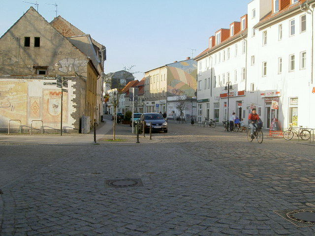 Join the old town